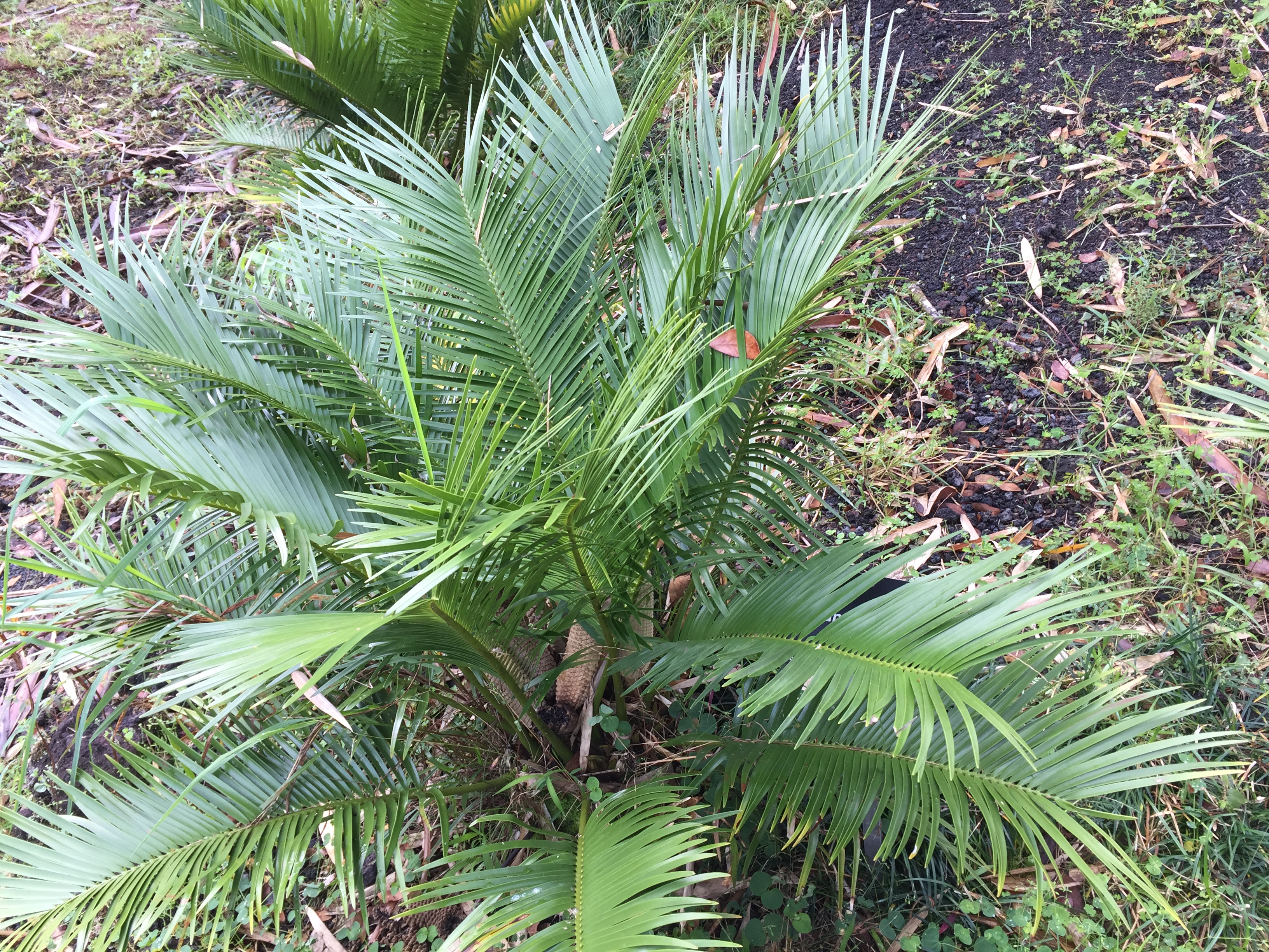 Panaewa Rainforest Zoo and Gardens, Hilo